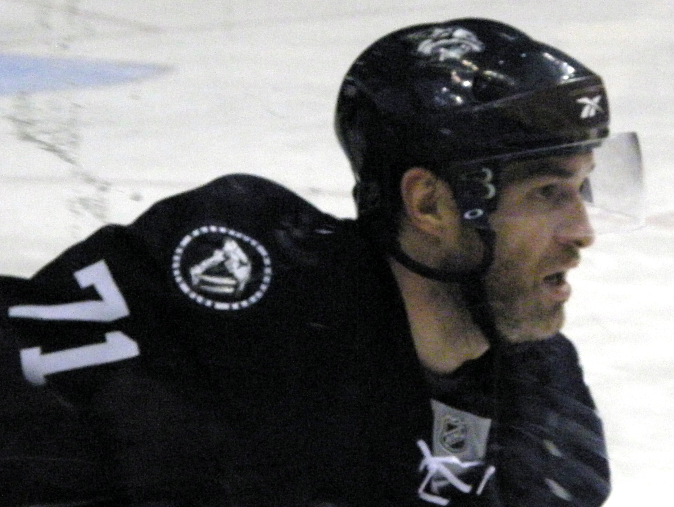 71, J.P. Dumont, RW, NSH San Jose Sharks at Nashville Predators, February 6, 2010